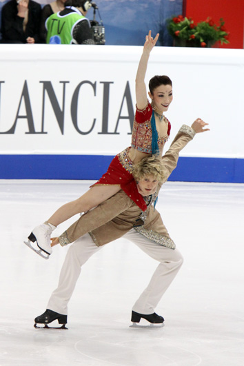 Meryl Davis and Charlie White at the the 2010 World Championships.